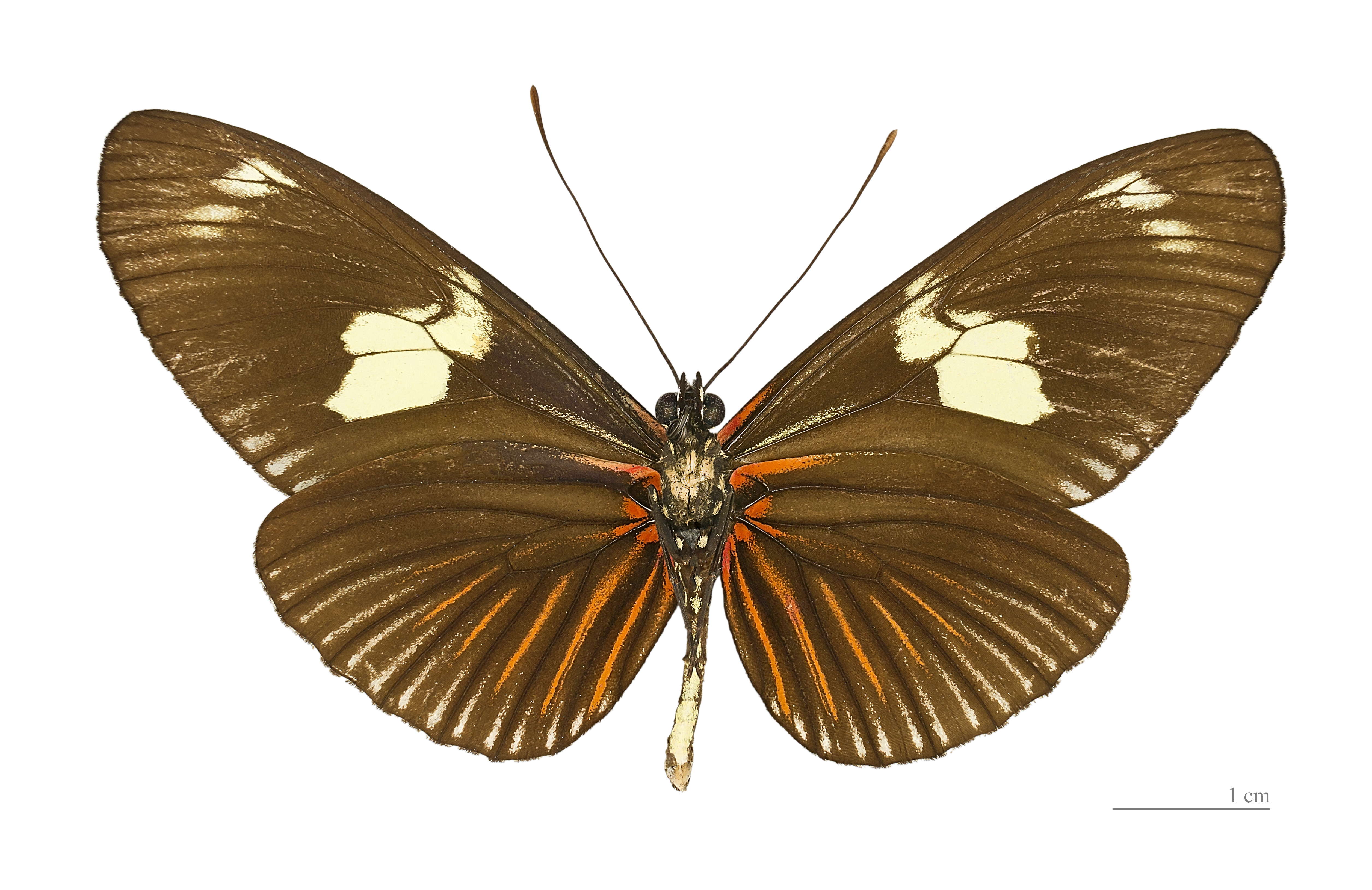 Doris Longwing △ Ventral side